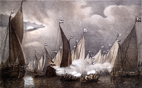 Battle at the Slaak